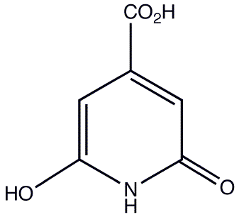 structure of main tautomer of citrazinic acid, I think